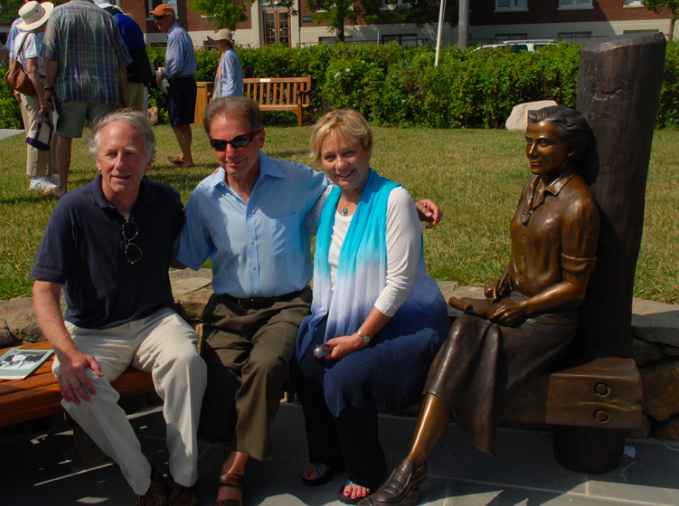 Eric Turkington (left) with former MBL President and Director Gary Borisy and WHOI President and Director Susan Avery. Photo credit: Shelley Dawicki, NEFSC/NOAA